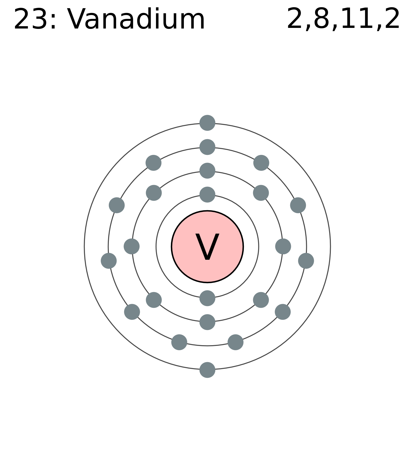 Electron shell diagram for Vanadium, the 23rd element in the periodic table of elements.